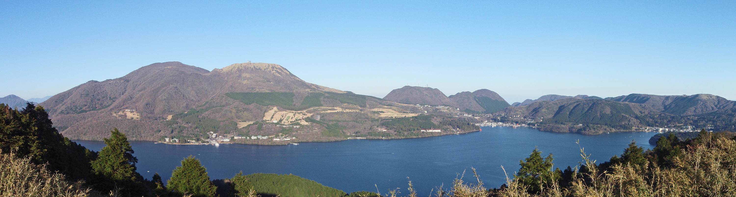 Central cones of Hakone volcano and Lake Ashi in Kanagawa Prefecture, Honshu, Japan. Looking north to south.